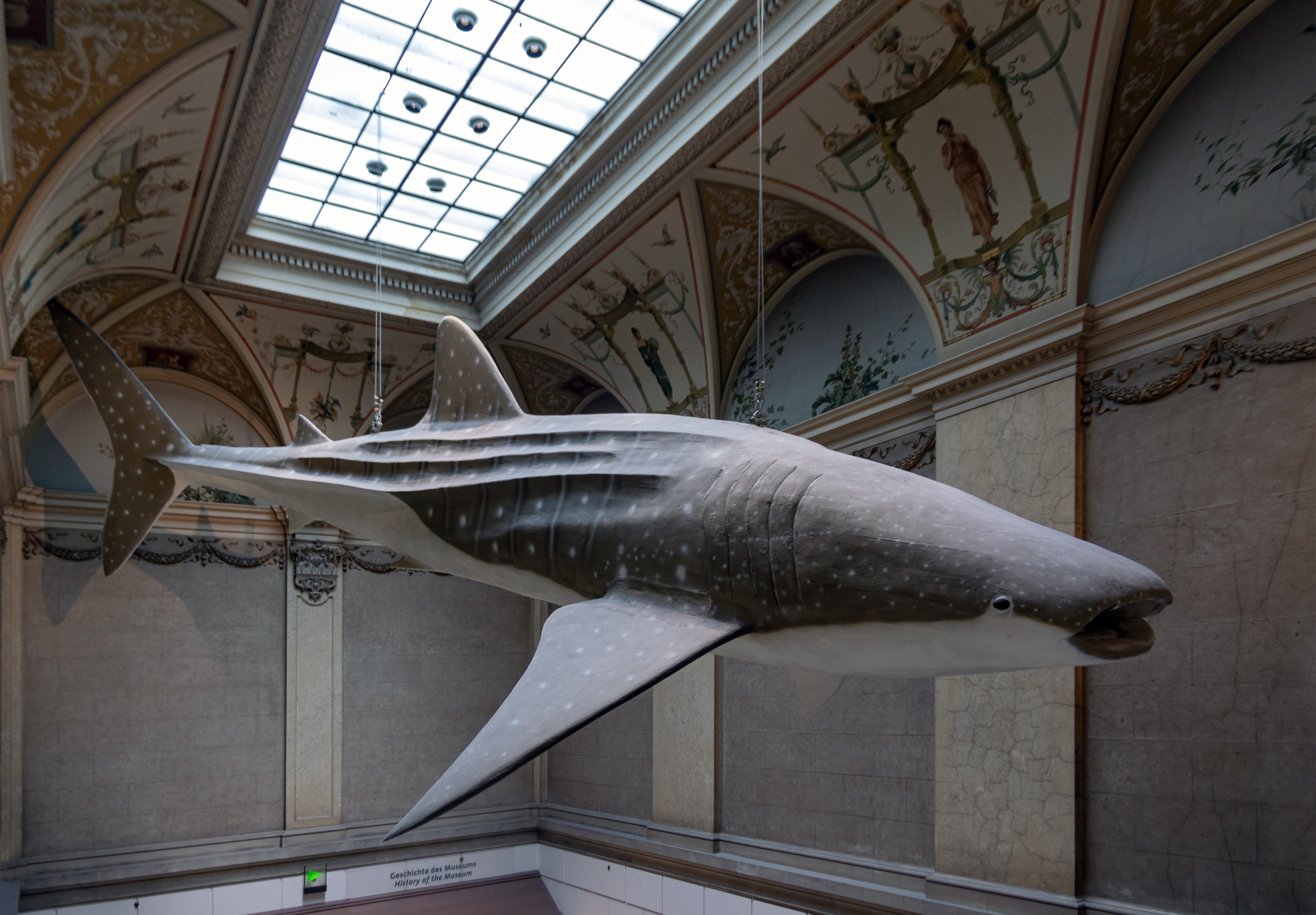 Whale shark at Natural History Museum in Vienna, Austria.